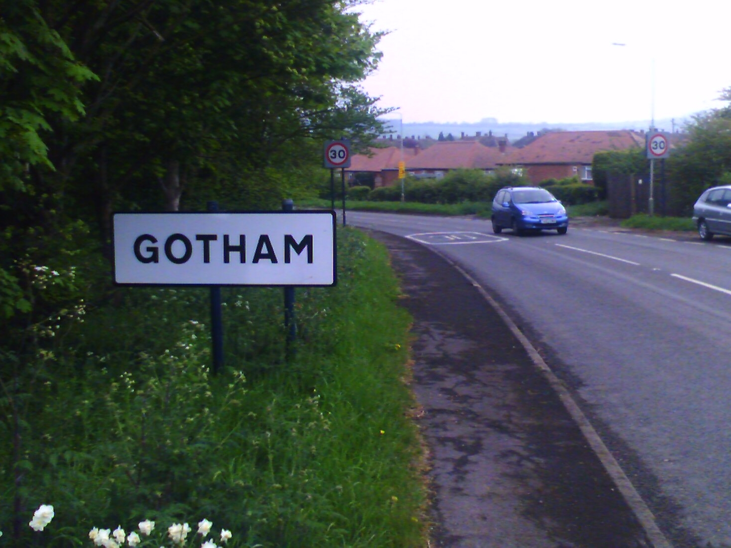 "Welcome to Gotham" sign is an attraction on its own because the high number of American tourists it brings around to have their picture taken next to it. Photo by Asterion talk to me